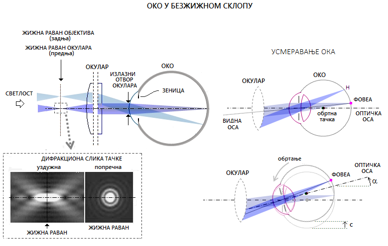 ОКО У БЕЗЖИЖНИ СКЛОПУ